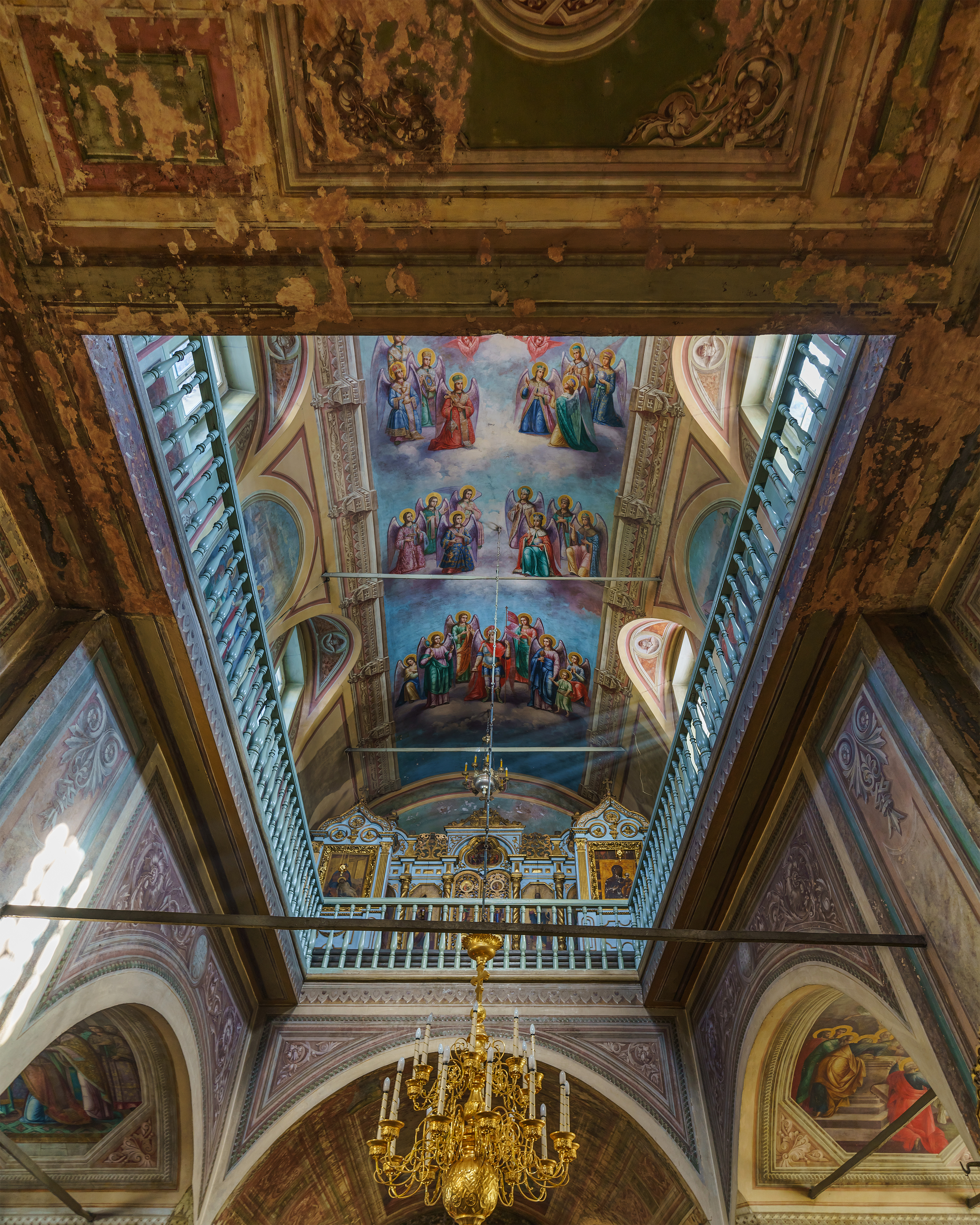 Interior of the Church of the Descent from the Cross in Palekh, Ivanovo Oblast, Russia.